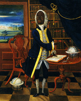 Painting of Francis Williams, a jamaican writer and teacher. Location is a library in Spansih Town Jamaica.